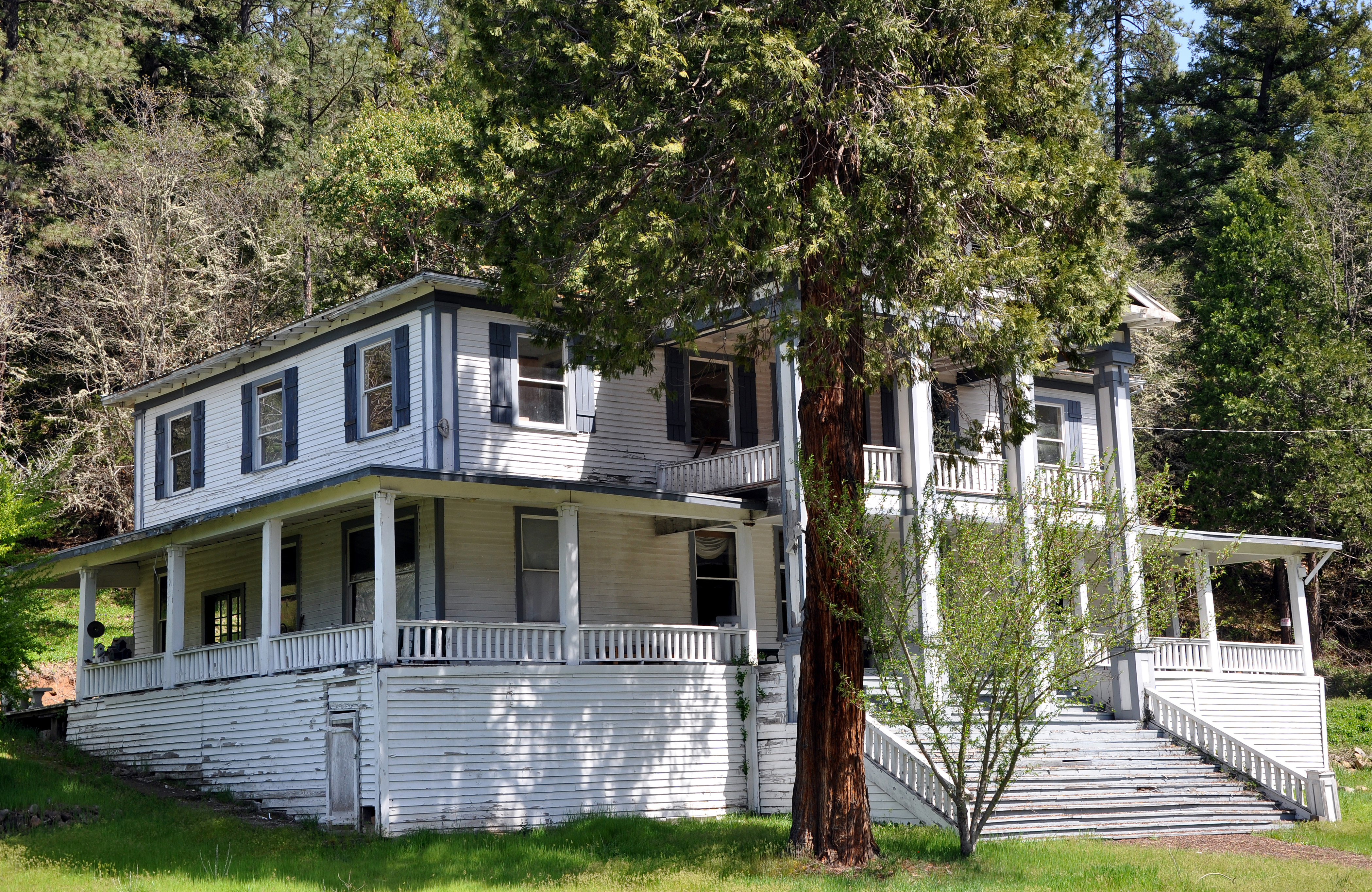 Rogue Elk Hotel near Trail in the U.S. state of Oregon. The hotel, along Oregon Route 62 near the Rogue River, is on the National Register of Historic Places.